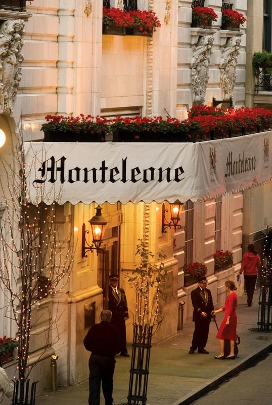 View of the beautiful Hotel Monteleone as seen from Royal Street.